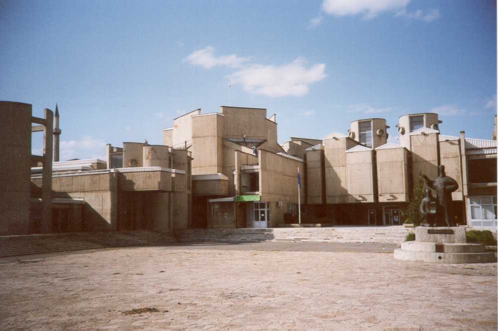 Building of Ss. Cyril and Methodius University of Skopje